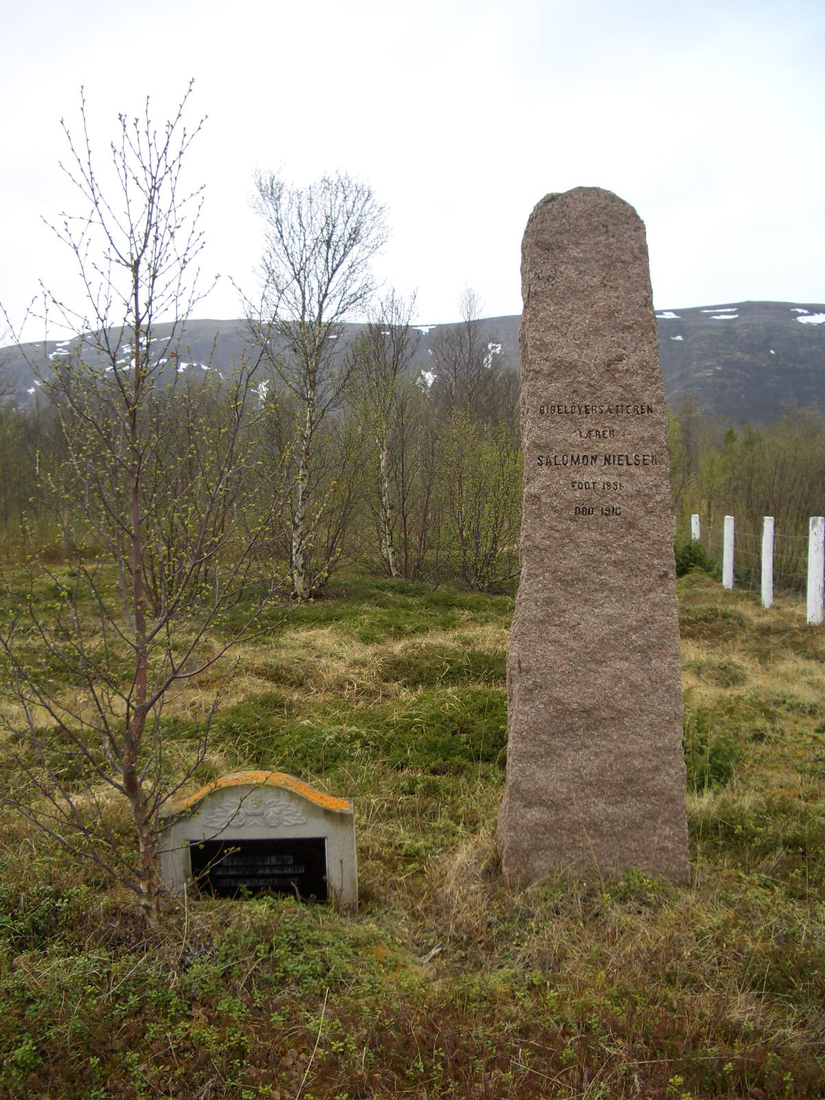 Tombstones at the cemetary.